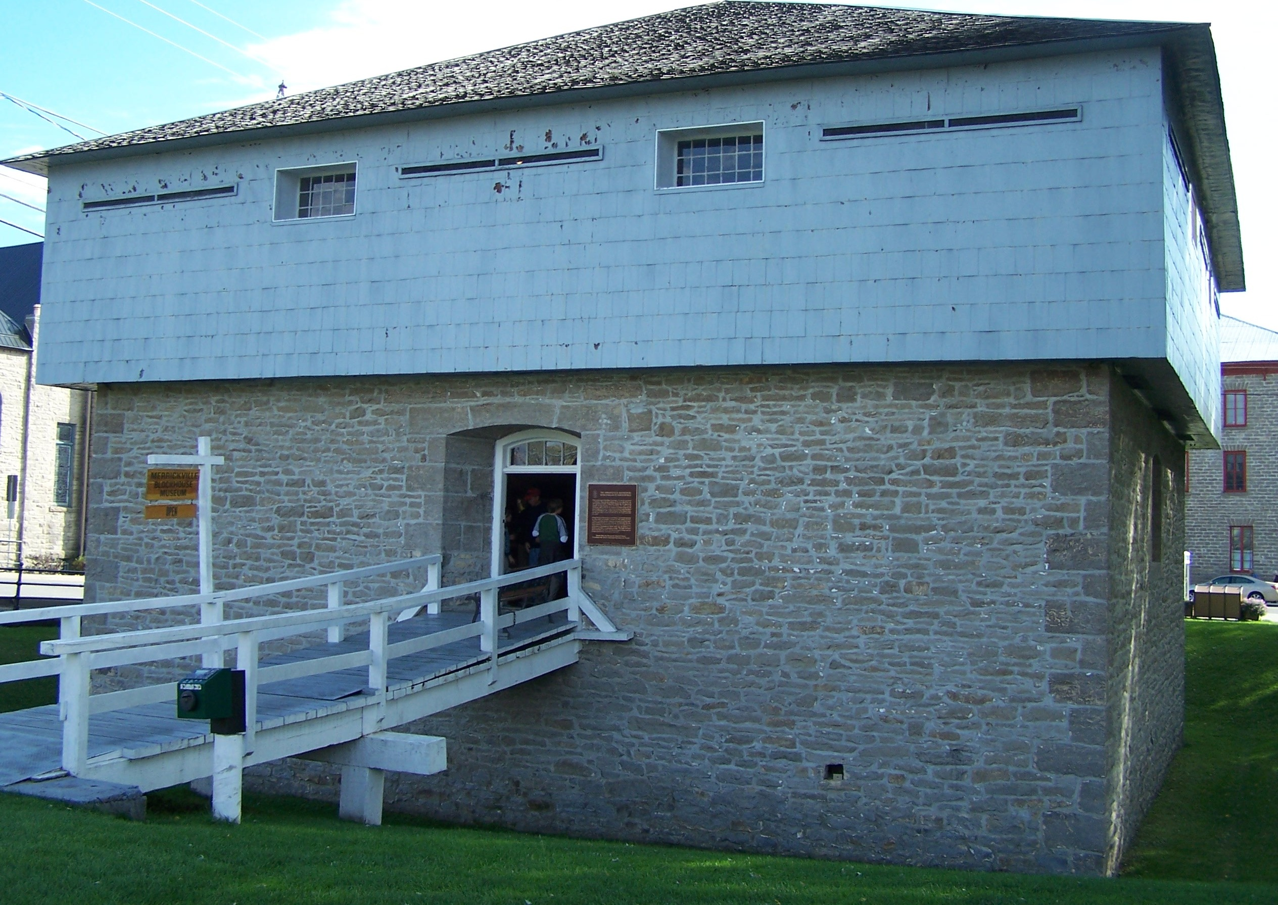 Though never put to the test the Rideau Canal was fortified with block-houses at strategic locations to discourage possible attacks by Americans in the post-War of 1812 era.